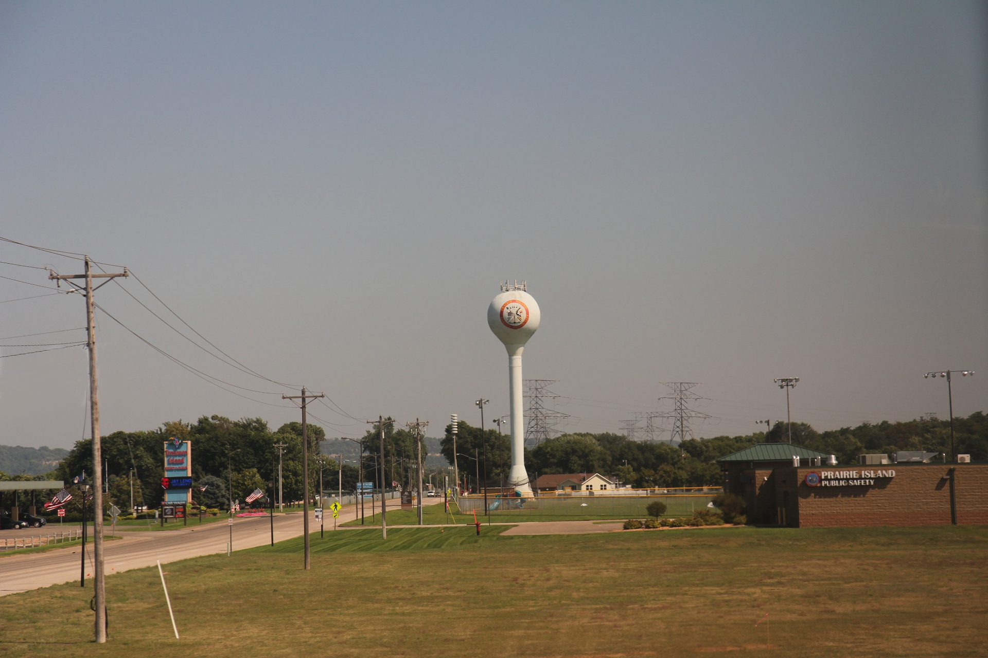 The water tower for the Prairie Island Indian Community.